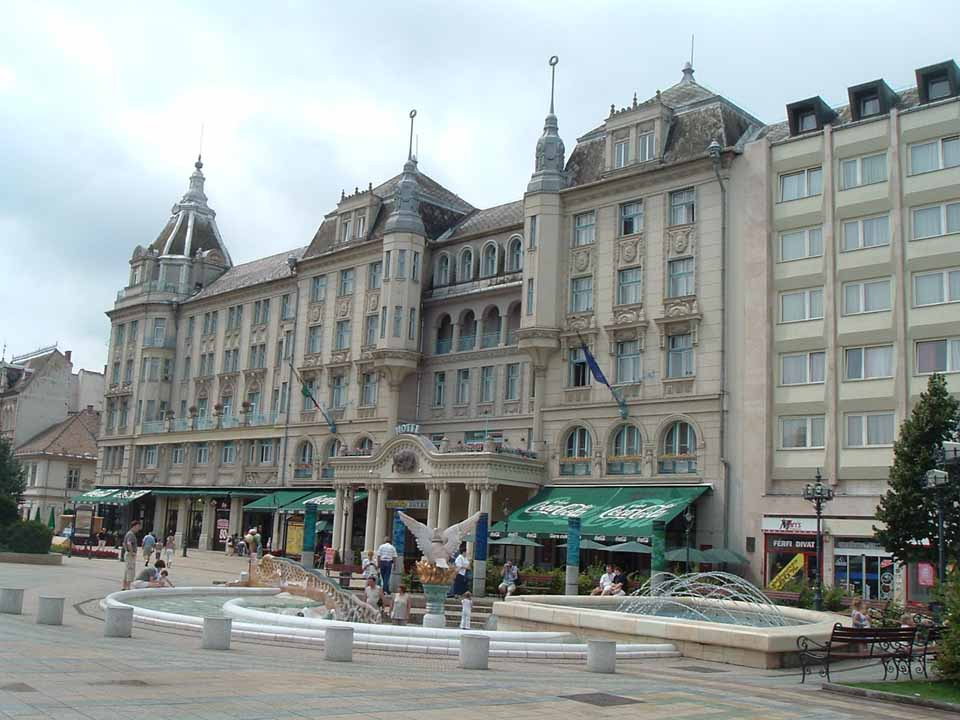 The Main Square in Debrecen, Hungary